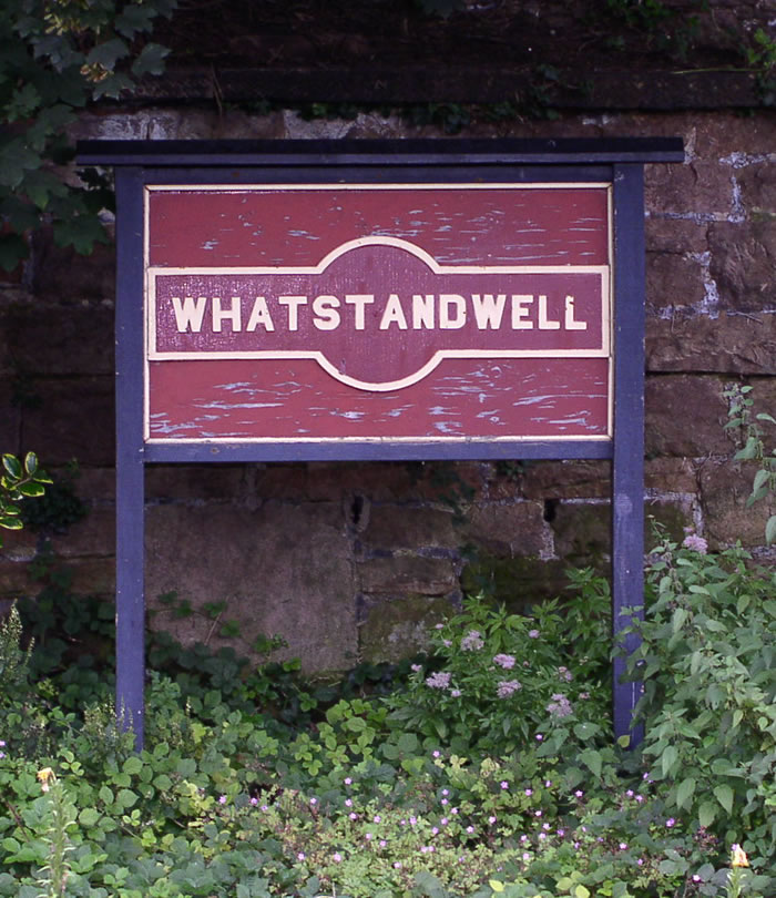 Old notice on Whatstandwell stationv